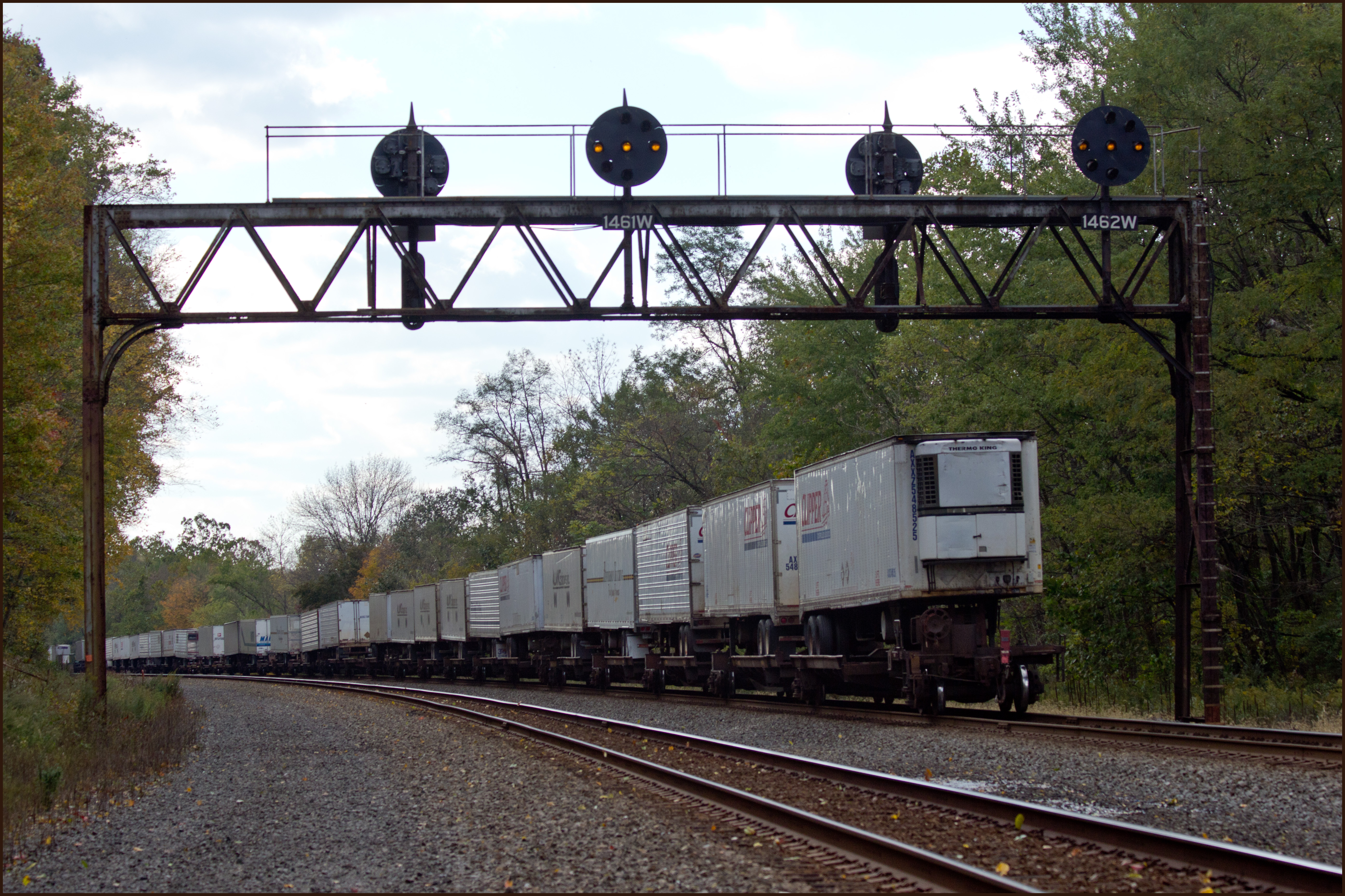 The end of a westbound intermodal passes under a PRR era signal bridge on the NS Pittsburgh Line. It won't be a long wait until another intermodal arrives.